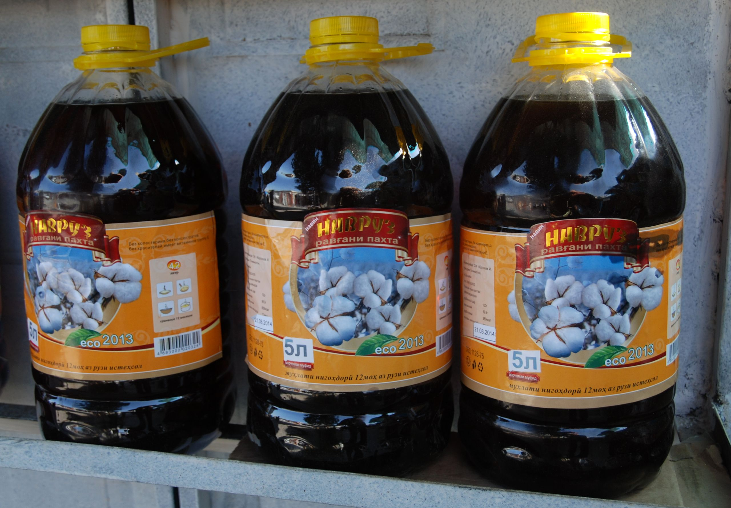 Cottonseed oil, market in Hissor, Tajikistan